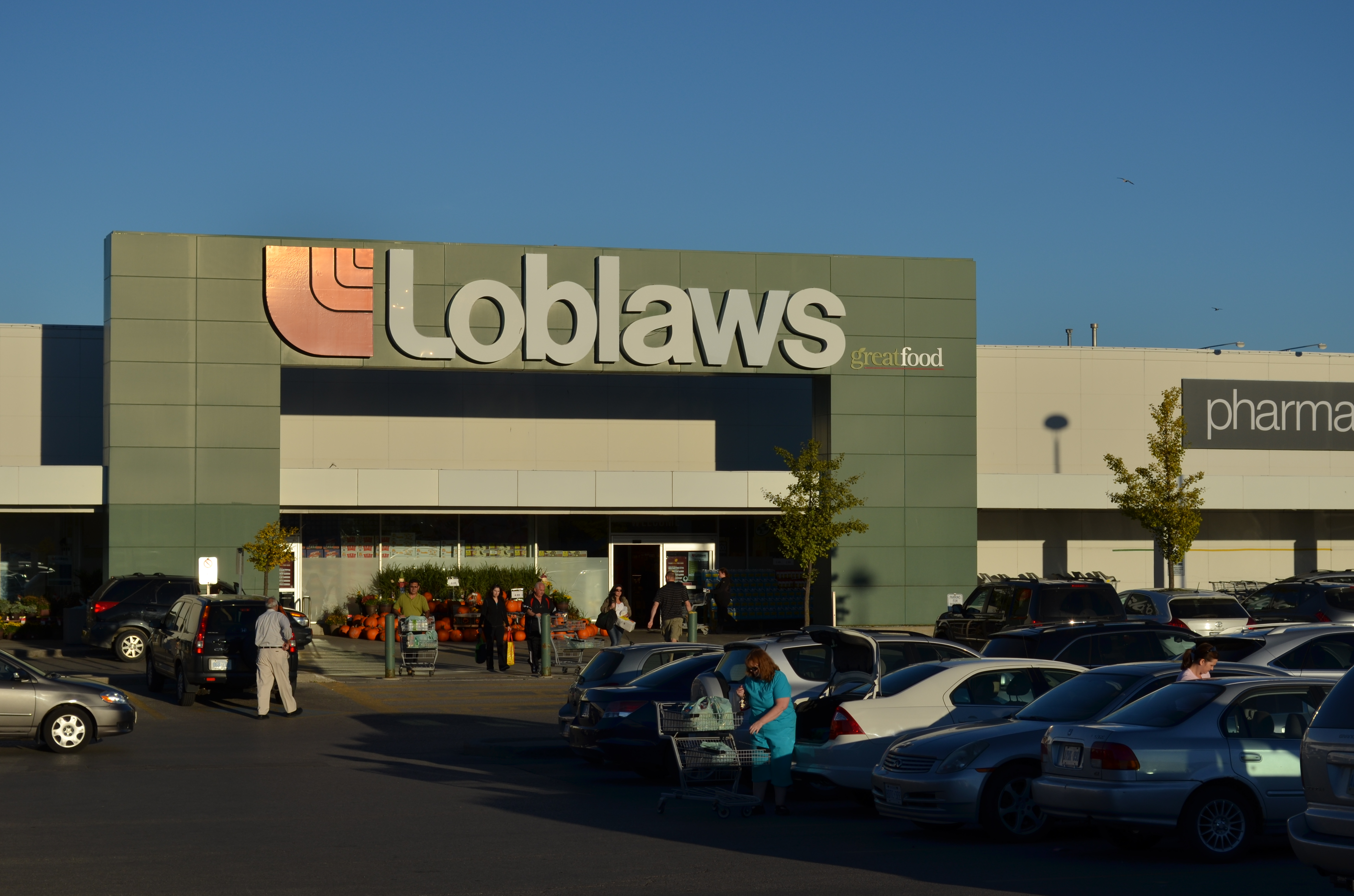 10909 Yonge Street, Richmond Hill, Ontario